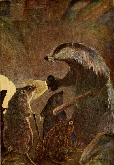 Wind in the Willows